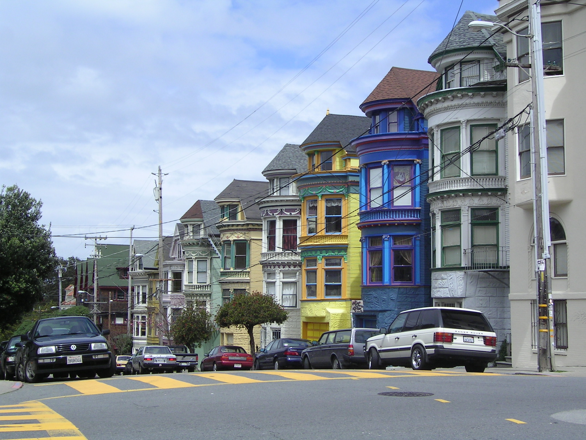 San Francisco, California : Haight Ashbury